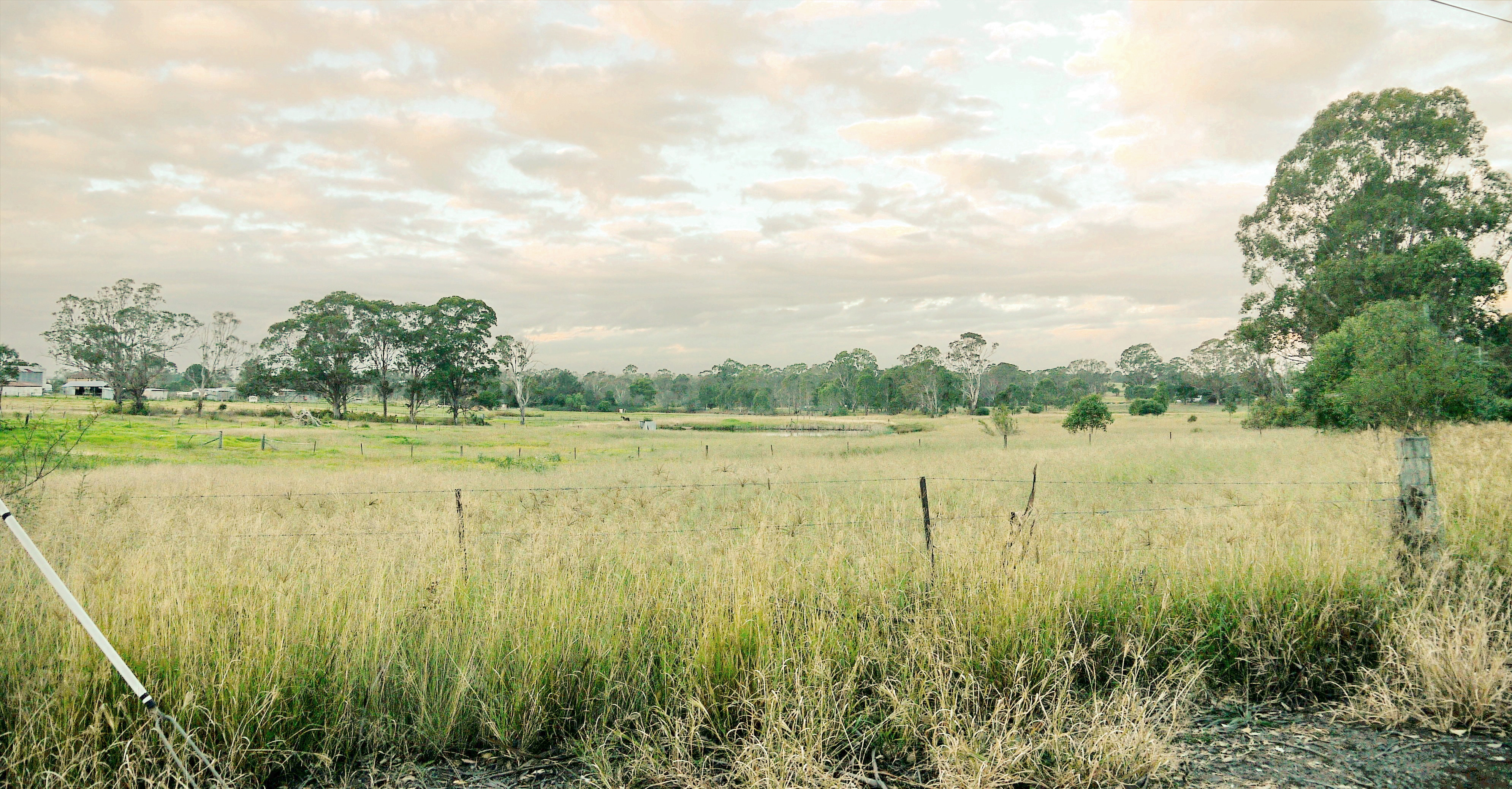 Western Sydney (Badgerys Creek) Airport site as at 29 May 2014 - Anton Rd (looking east toward central part).JPG